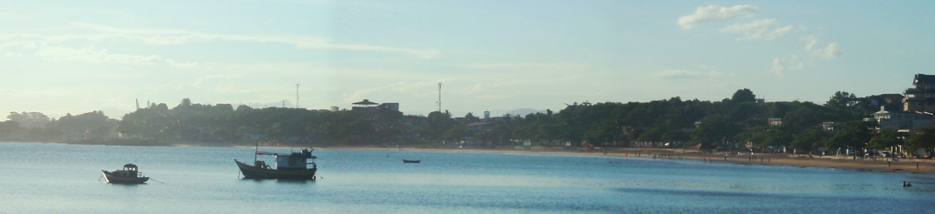 Panoramic view of the Ubu coast, in Anchieta, Espírito Santo, Brazil.